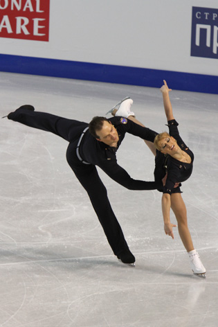 Tatiana Volosozhar and Stanislav Morozov at the 2010 European Figure Skating Championships.